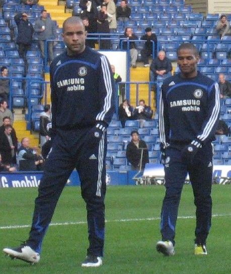 Alex Rodrigo Dias da Costa with Florent Malouda.